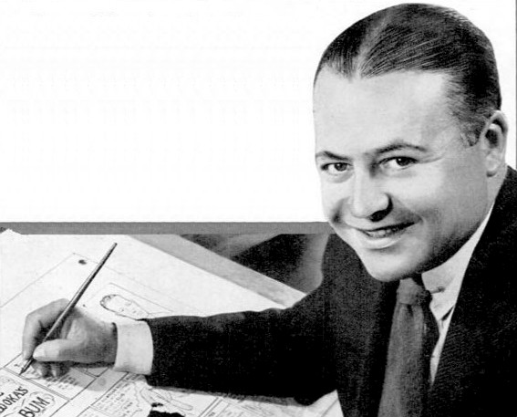 Photo of Ham Fisher, cartoonist and creator of comic Joe Palooka in 1939. A search for renewal was done in artwork for the years 1966 and 1967. There were no listings for Pan American Coffee Bureau; there's no evidence of renewal for this advertisement. Fisher is seen at his drawing board working on a copy of the comic Joe Palooka. Only a small portion of what he was working on in 1939 is pictured and it would not be possible to identify which comic strip this is. This meets the de minimis criteria if the comic strip rremains under copyright. This portion of the ad has been altered to remove the ad copy which is seen to the left of Fisher's head in the original.